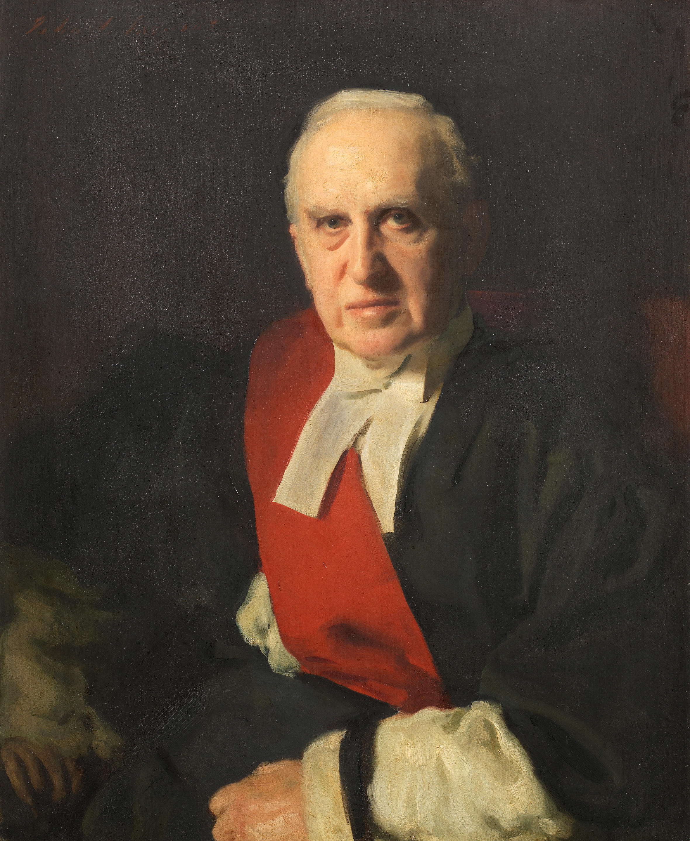 Charles Russell, Baron Russell of Killowen oil on canvas 87.5 x 72 cm signed t.l.: John S Sargent 1899